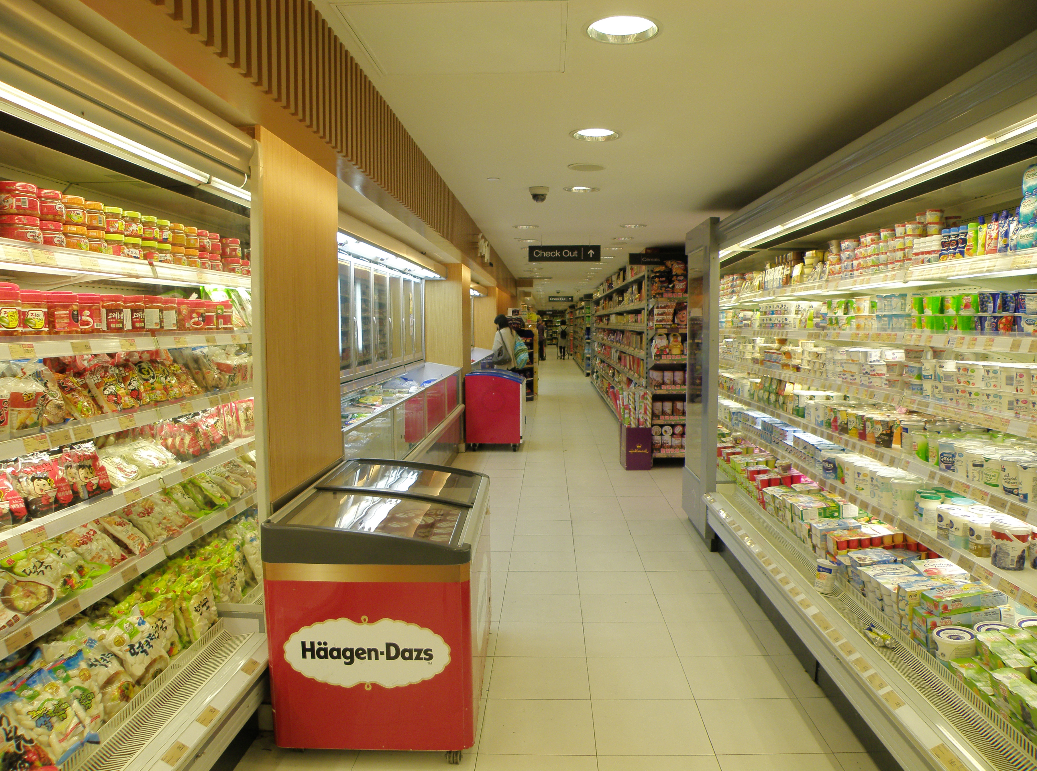 Gourmet supermarket in Causeway Bay, Hong Kong.